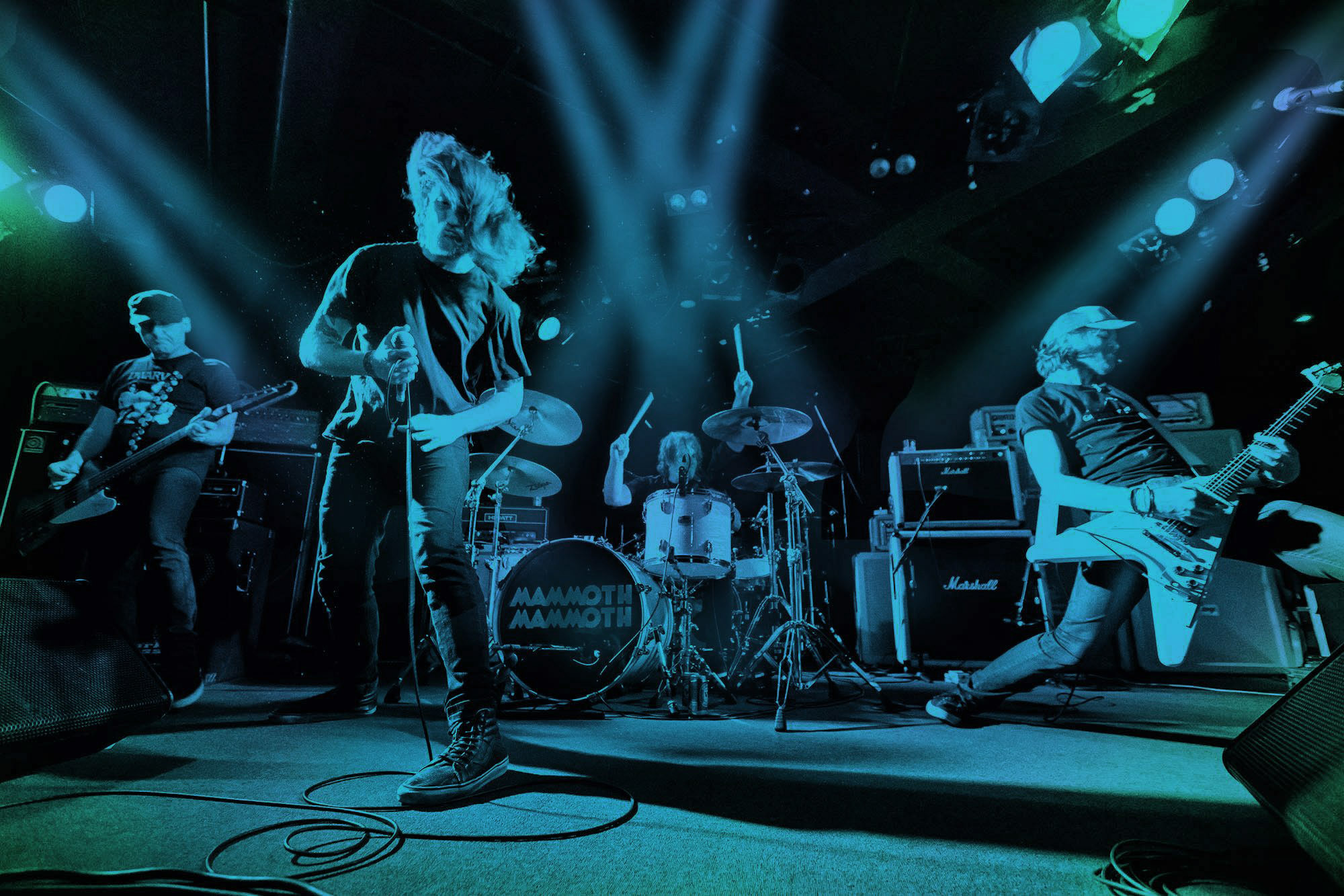 A live shot of Mammoth Mammoth performing